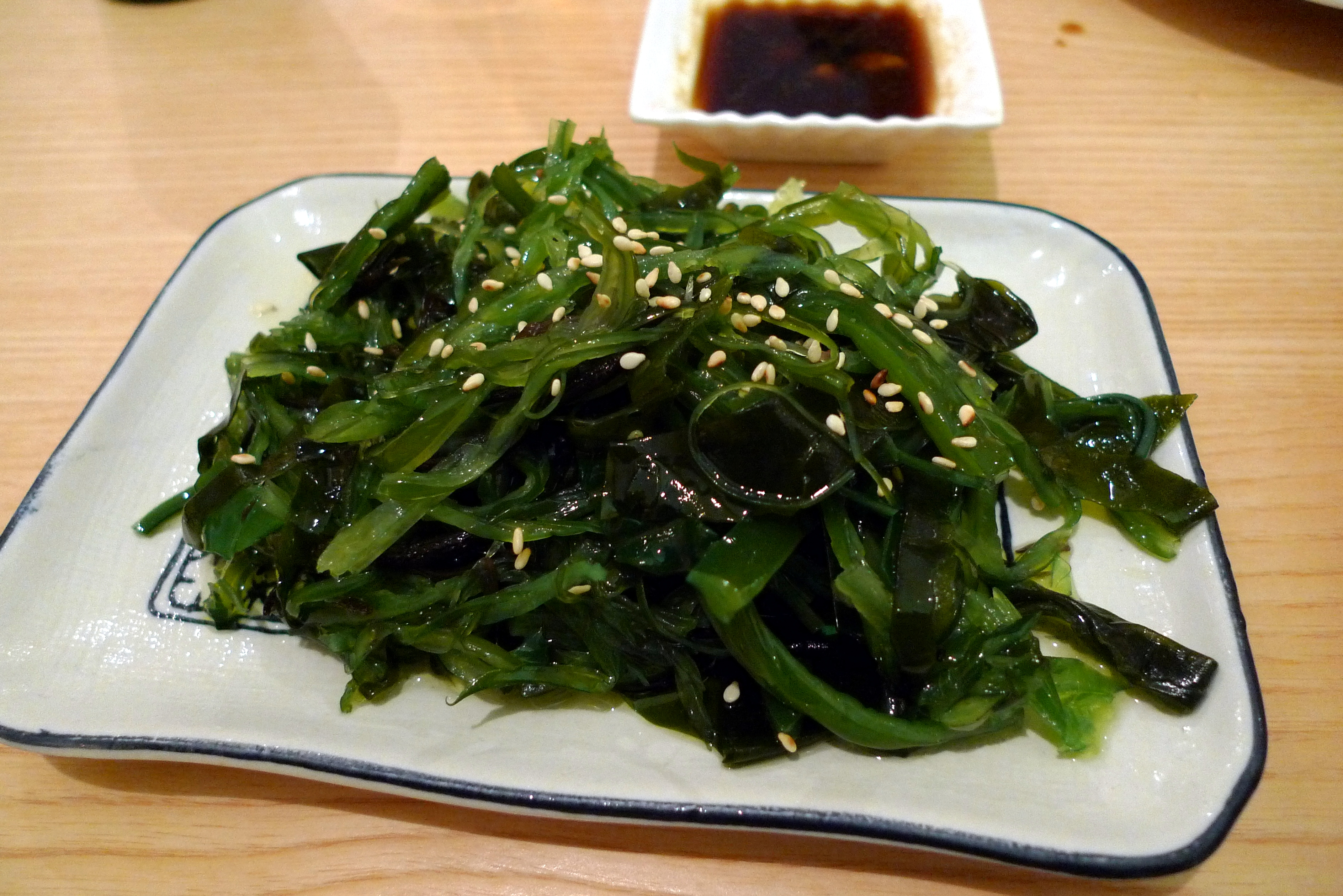 The pickled spicy seaweed, which was okay, nothing amazing. They were out of kimchi, which is always reliably good. At Sapporo Ichiban, Catford Broadway.